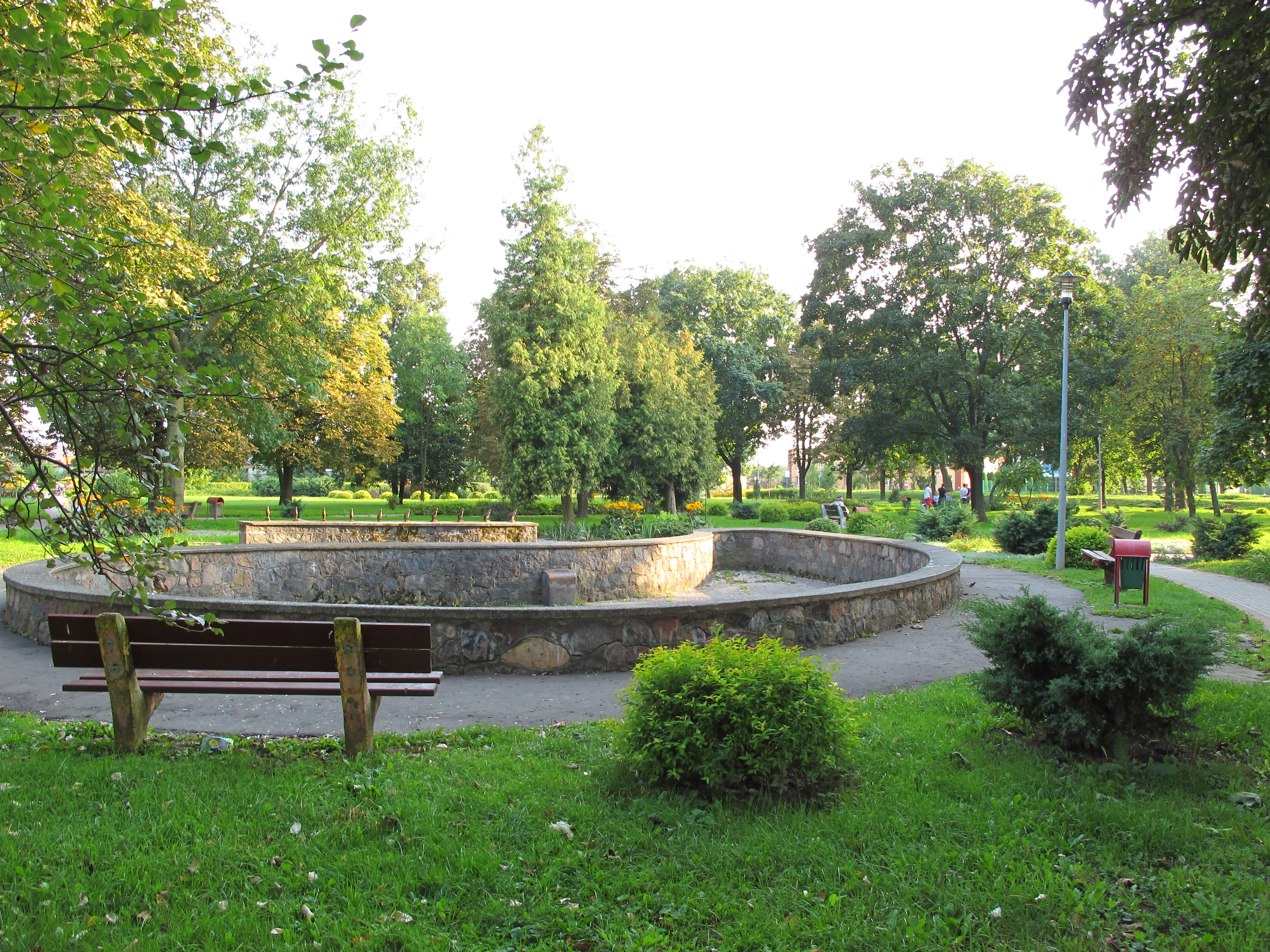 Park by 1 Maja and Ludowa streets in Wysokie Mazowieckie, podlaskie, Poland